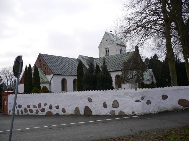 Vellinge church Source: taken by user dec 26th 2004